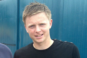 Picture of Tom Shaw.